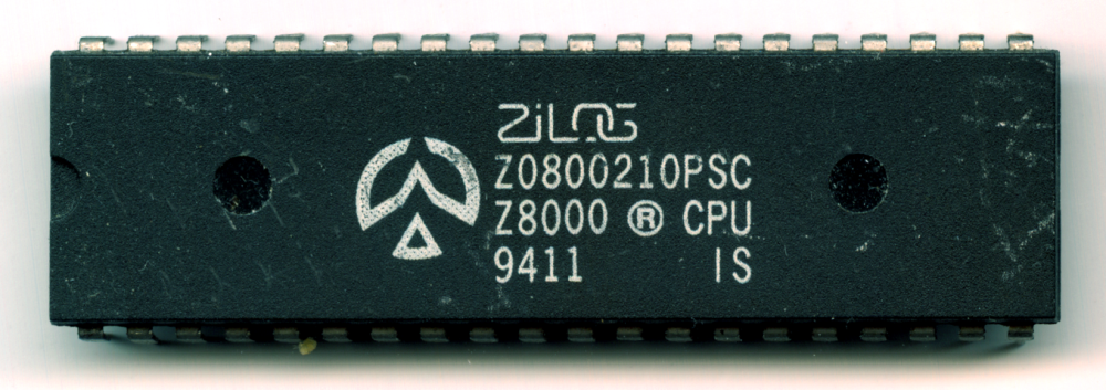 IC photo